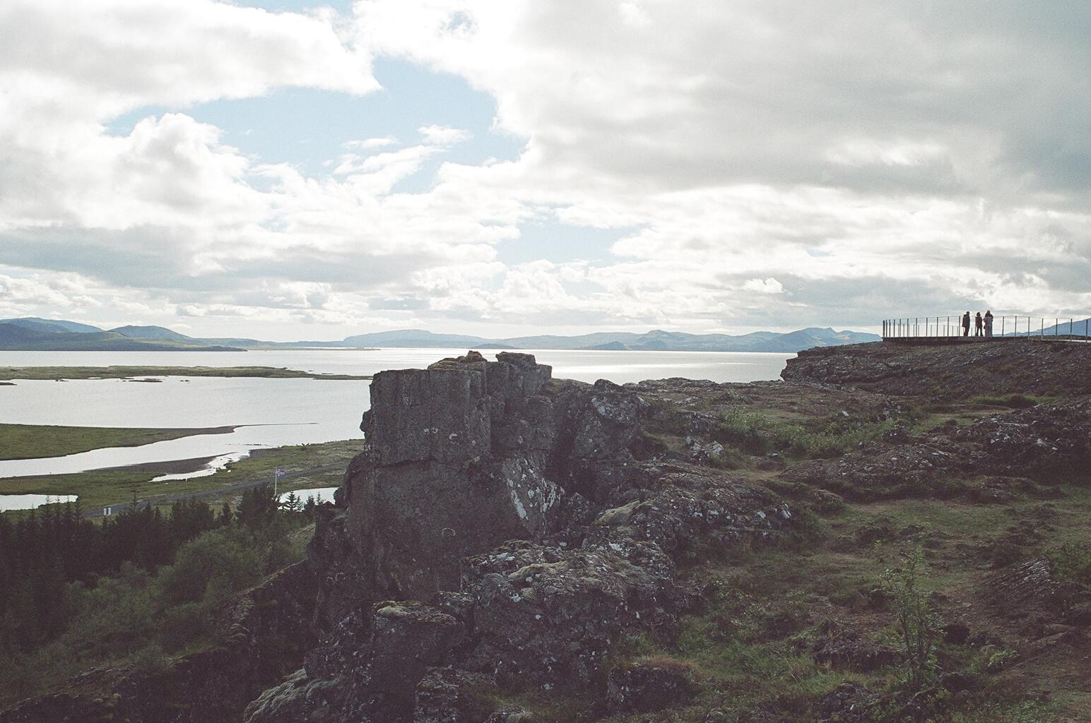 Thingvellir in autumn 2004, GNU-FDL I took the photo my-self in september 2004, no other copyrights involved.